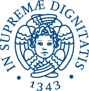 Official coat-of-arms of the University of Pisa